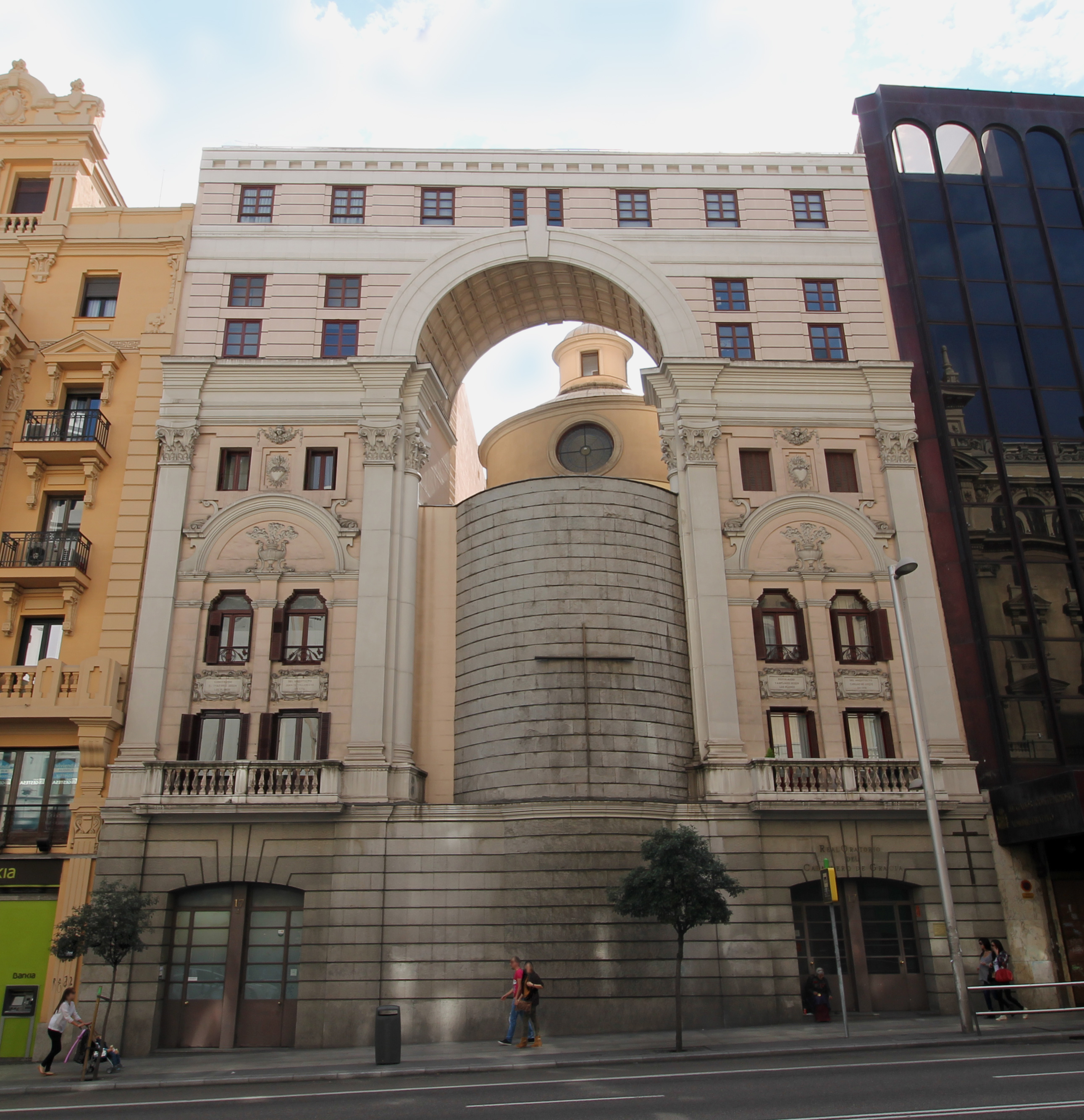 North façade of Real Oratorio del Caballero de Gracia (a church) in Madrid (Spain).